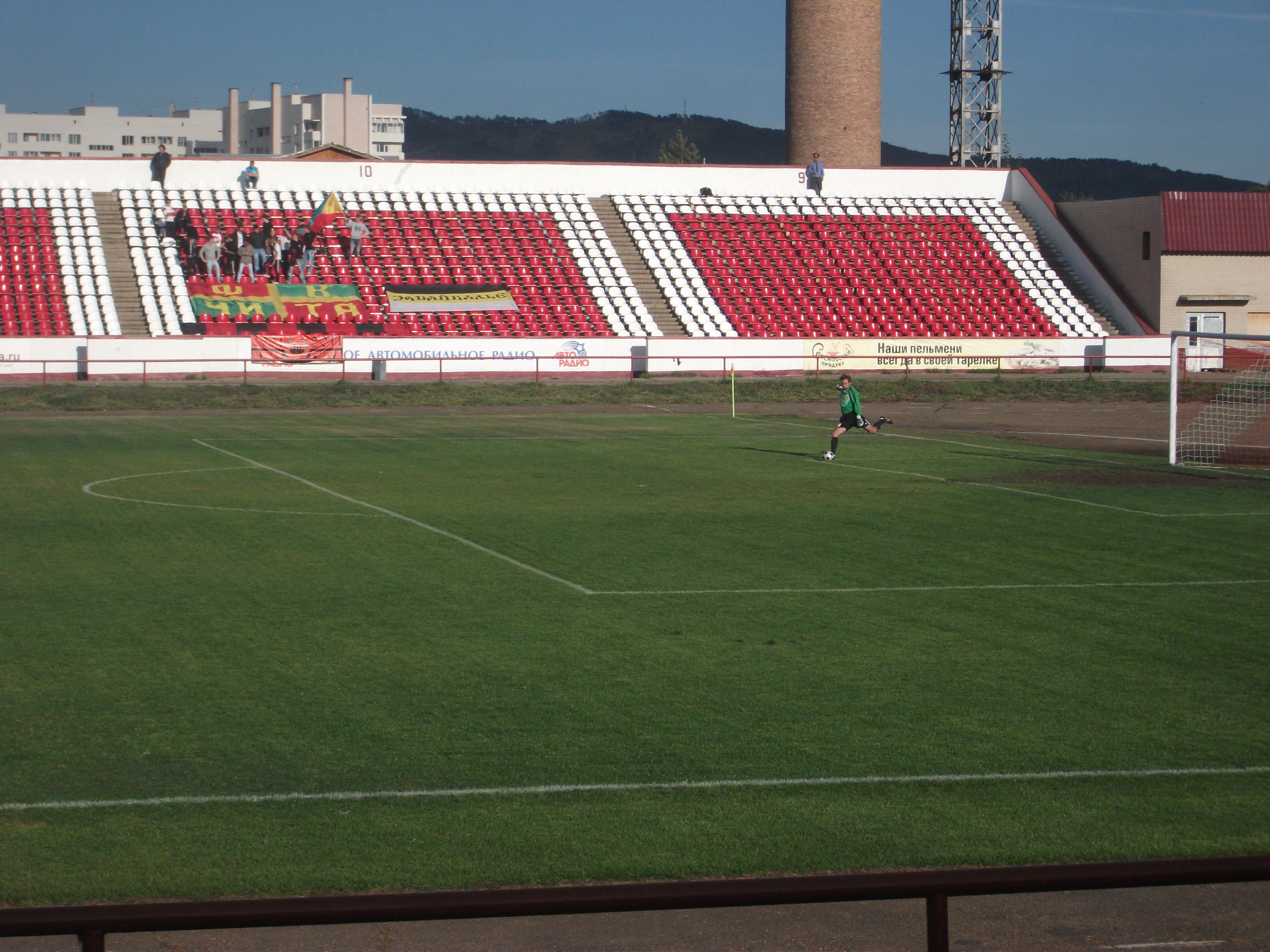 FC «Chita» goalkeeper Ruslan Yevseyev enters the ball in play. Episode of the match «Chita» - «Sibir-2». 26th round of the competition in «East» zone of the Russian second division. September 10, 2011.